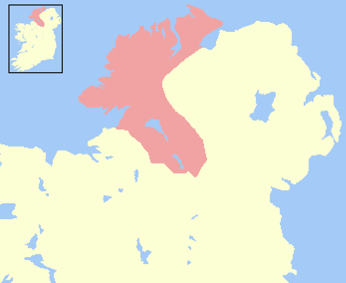 Rough map of the Kingdom of Tyrconell in the 1450s.